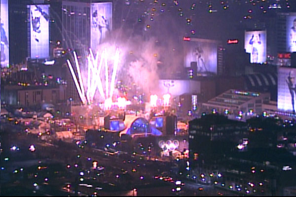 Fireworks at the Olympic Medals Plaza in downtown Salt Lake City during the 2002 Winter Olympics.